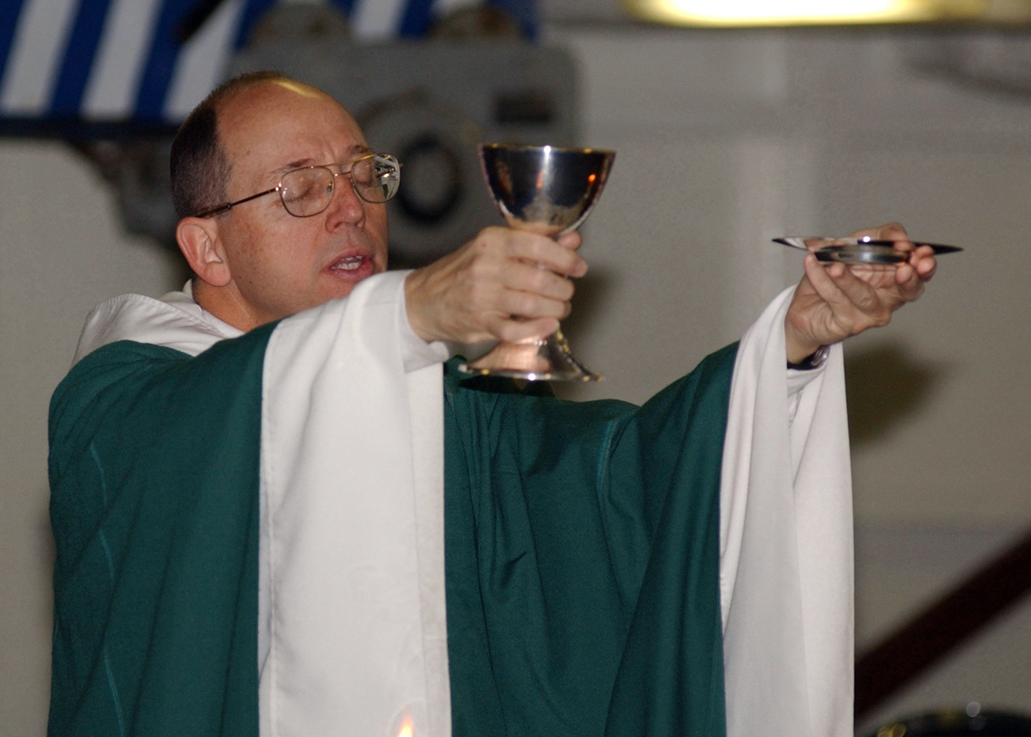 Atlantic Ocean (Oct. 24, 2004) - Chaplain Lt. John Burnette prays over the Blood and Body of Christ during Sunday Roman Catholic Mass aboard the Nimitz-class aircraft carrier USS Harry S. Truman (CVN 75). The Truman Carrier Strike Group (CSG) is on a regularly scheduled deployment in support of the global war on terrorism and is currently conducting carrier qualifications off the east coast of the United States. U.S. Navy photo by Photographer's Mate Kathaleen A. Knowles (RELEASED)